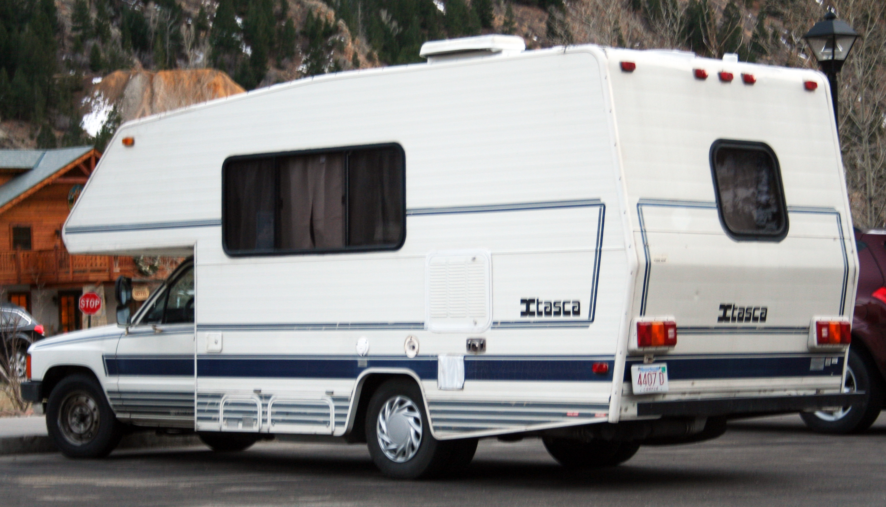 Itasca (Sundancer 319 ?) mobile home, based on fourth generation Toyota Hilux